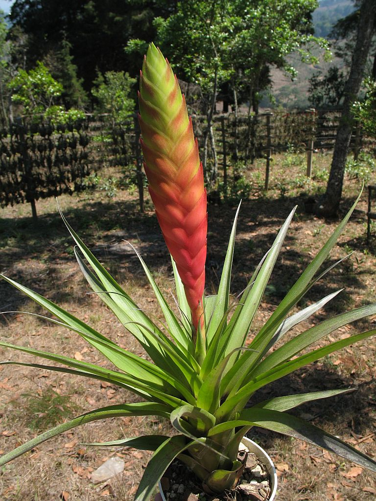 Tillandsia verapazana in cultivation in a nursery near Guatemala City, Guatemala; 1965m.